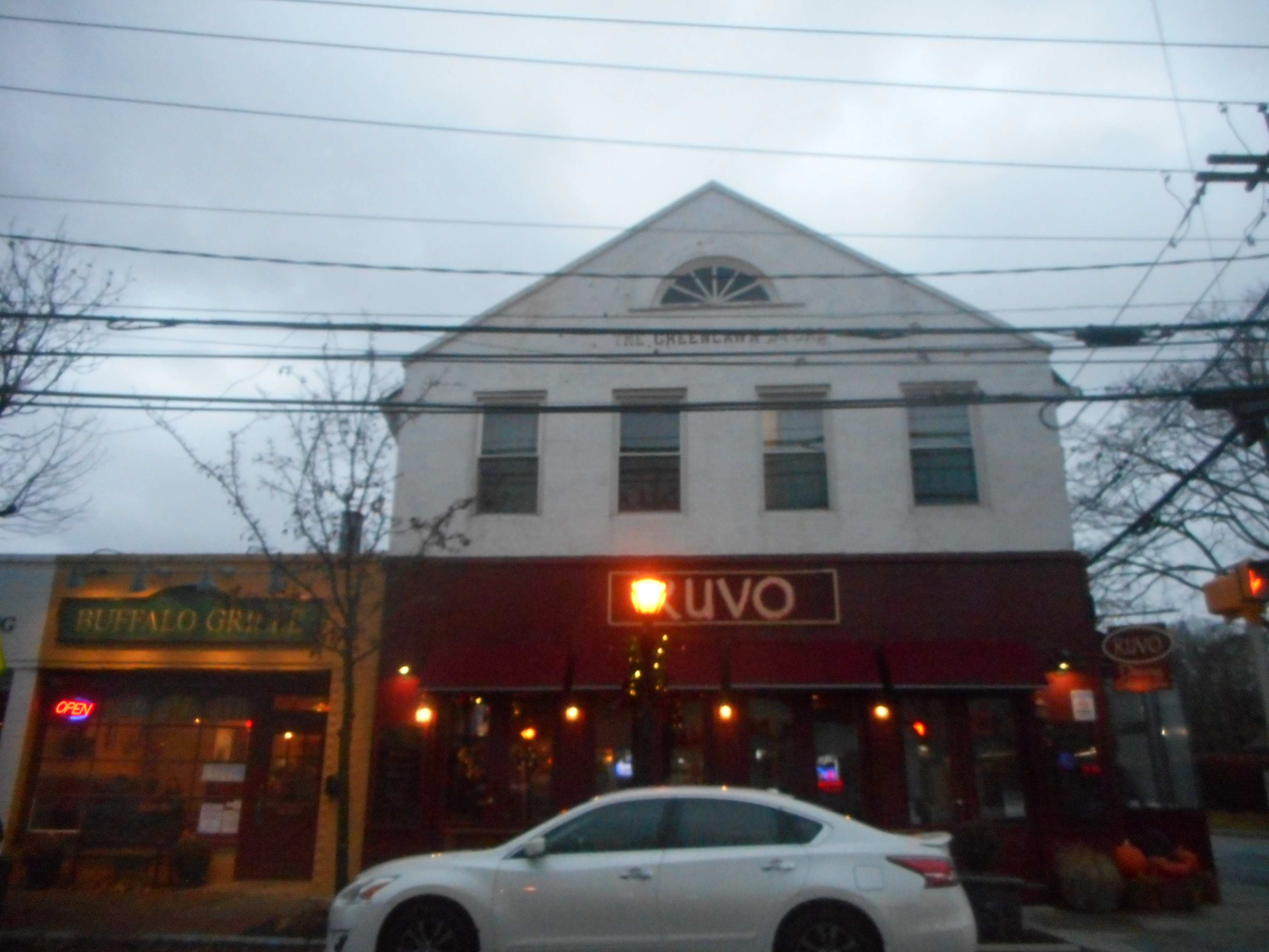 The Greenlawn Store, a long-standing commercial building on the southwest corner of Broadway (Suffolk County Road 86) and Smith Street in Greenlawn, New York. The building is a two-story commercial building, possibly part residential that appears to date back to the early-20th Century.